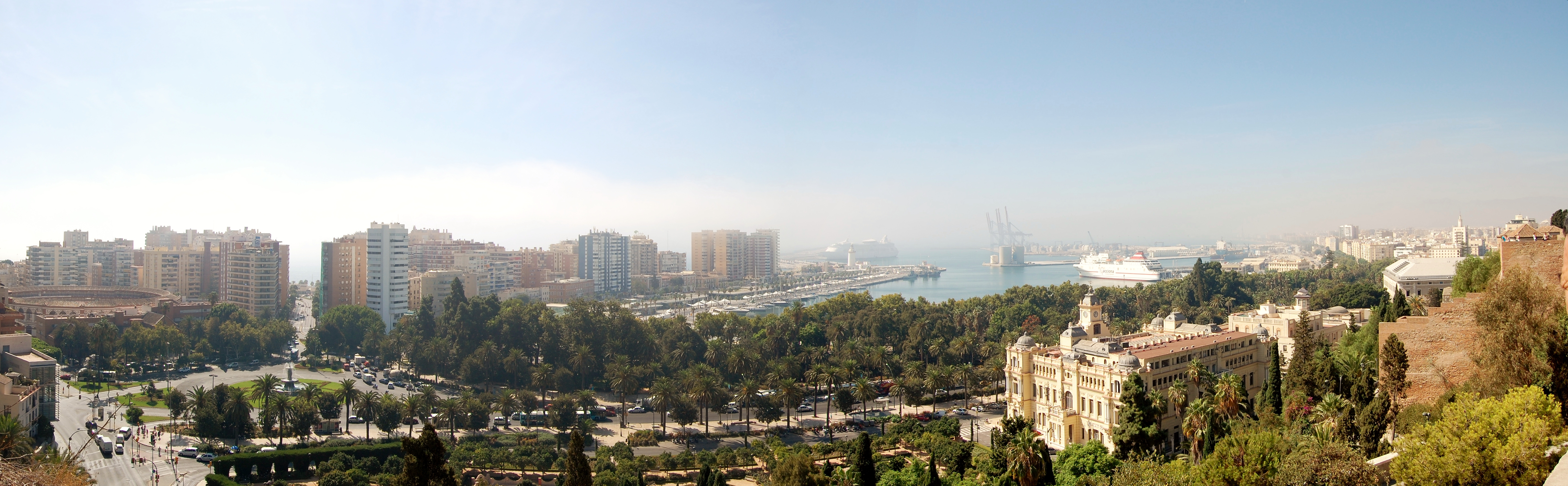 Panoramic of Málaga, Spain.